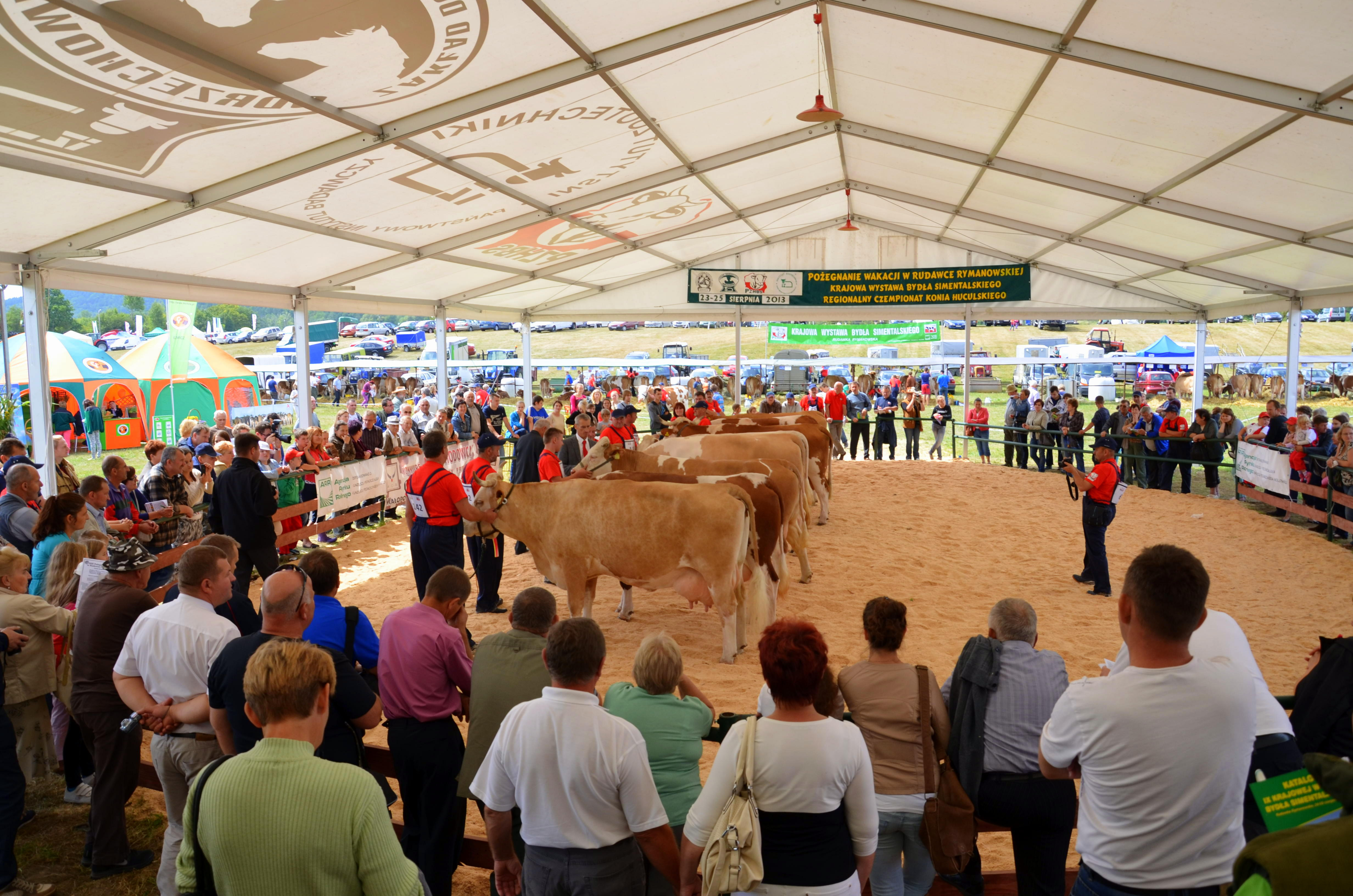 Rudawka Rymanowska